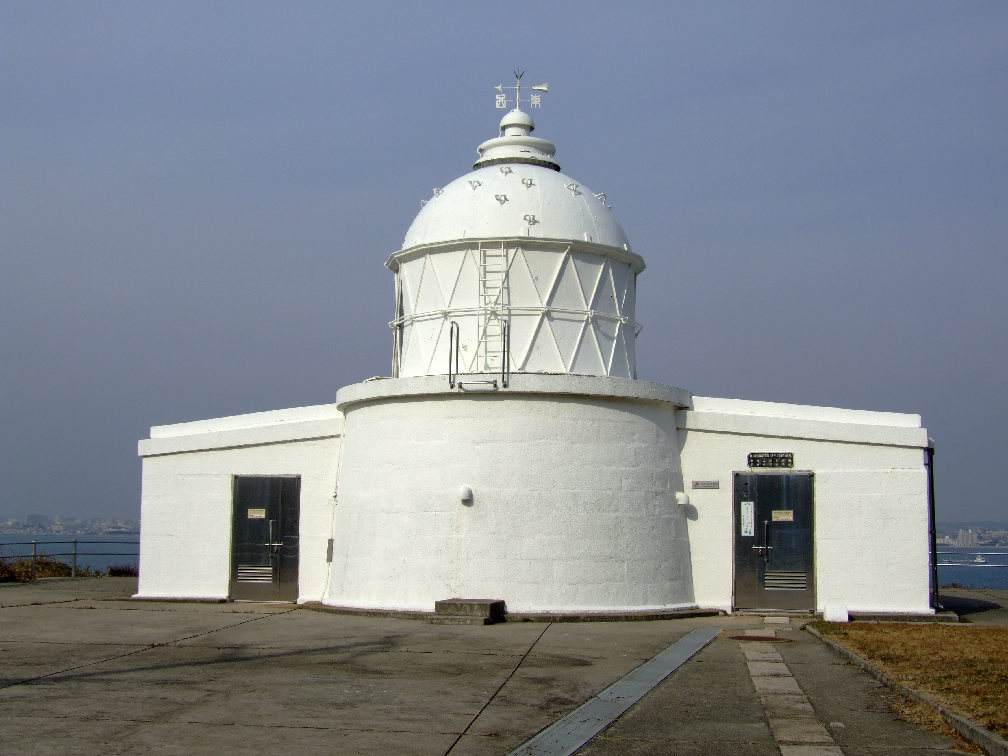 Esakitoudai Lighthouse, Awajishima Island, Hyogo prefecture, Japan. It was constructed by Richard Henry Brunton.